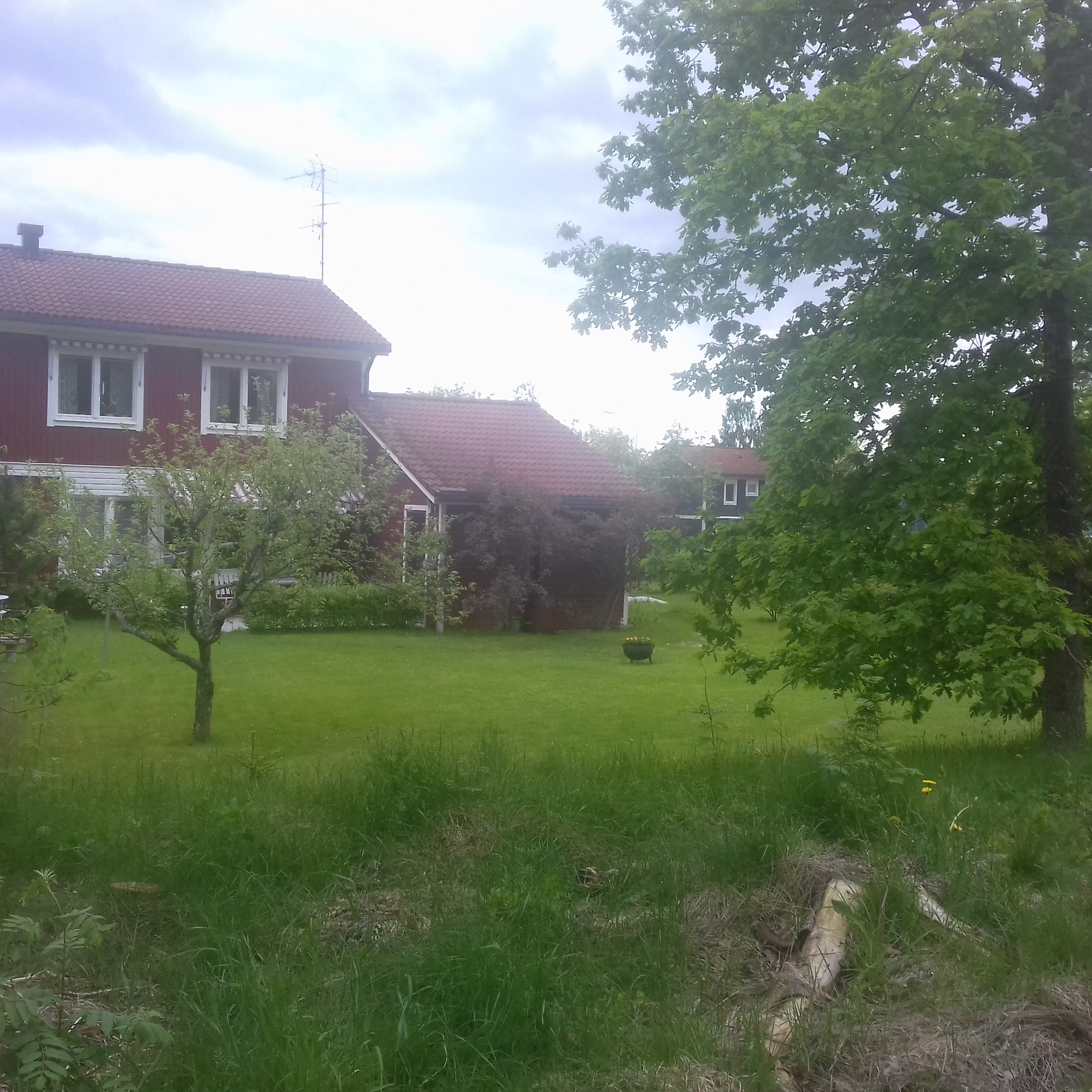 A house in Övre Brånan